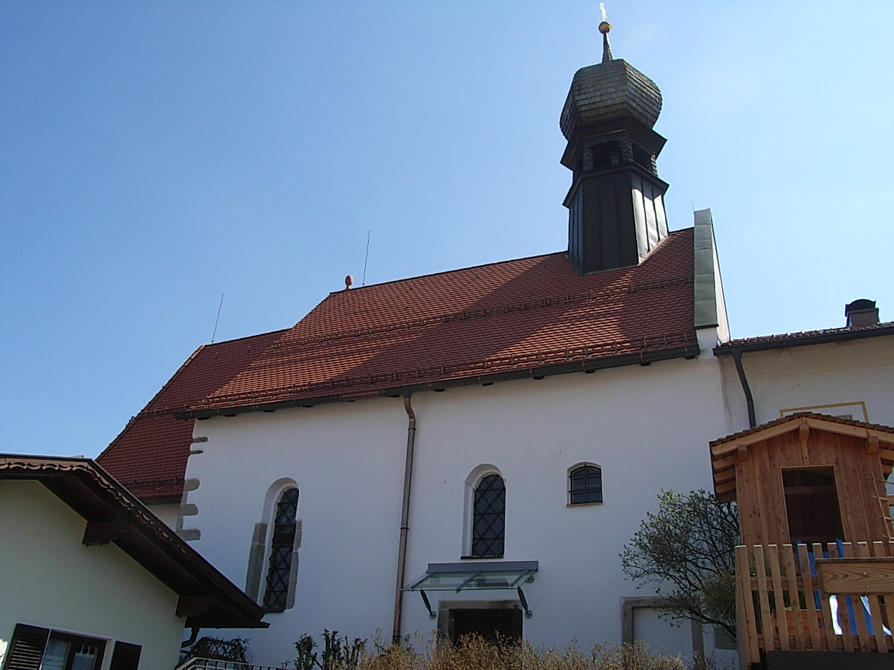 Regen, Holy Spirit Hospital Church from north-west.